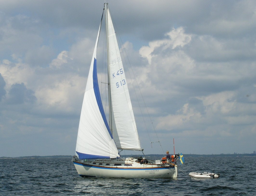 Sailing boat type Allegro 33